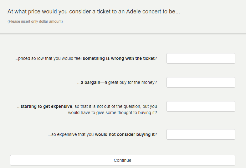 This is an example of a survey using the Van Westendorp pricing technique from the survey platform Conjoint.ly